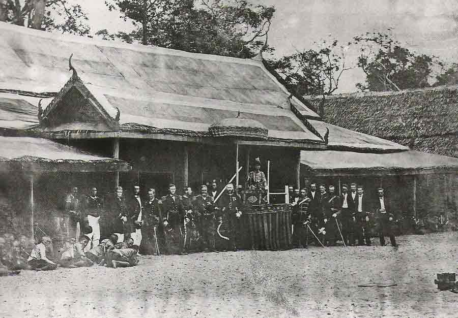 King Mongkut and party viewing a solar eclipse on the 18 August 1868. The King seated center in the middle of the pavilion, Sir Harry Ord (Governor of the Straits Settlements at Singpore) and the British party stands around, includes royal officials kneeling.